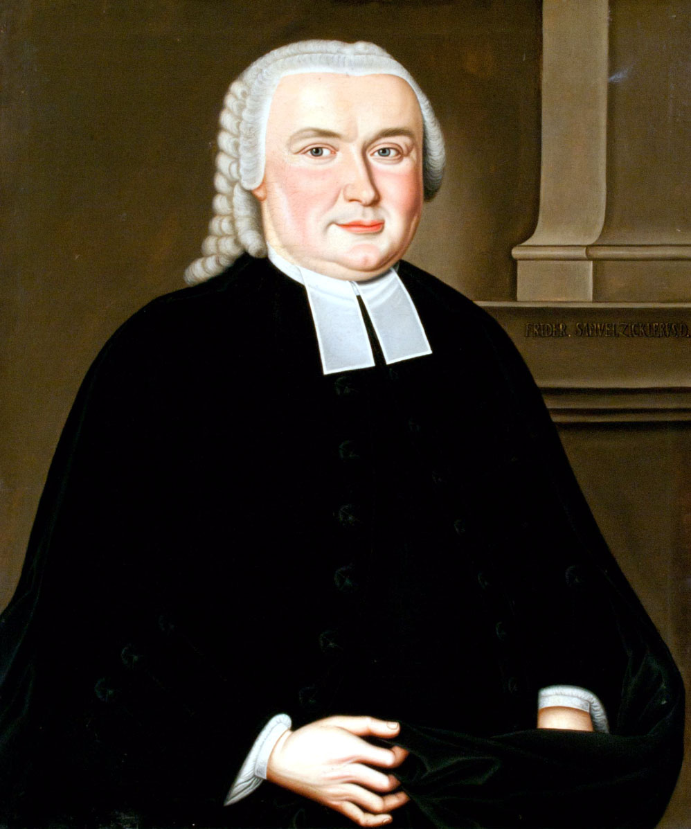 Friedrich Samuel Zickler (1721-1779) german protestant Theologian